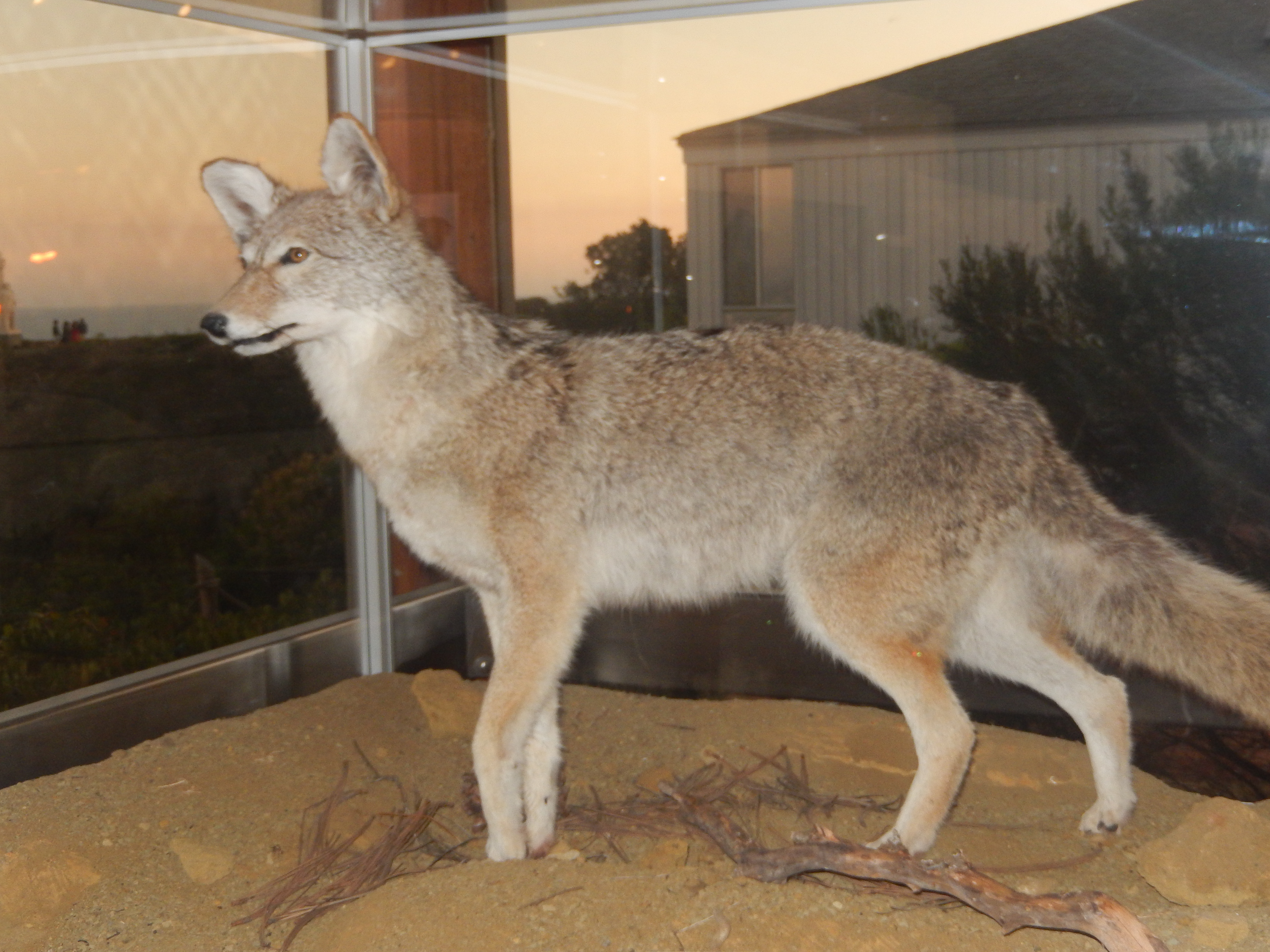 I took photo of coyote exhibit at Cabrillo National Monument with Nikon camera.